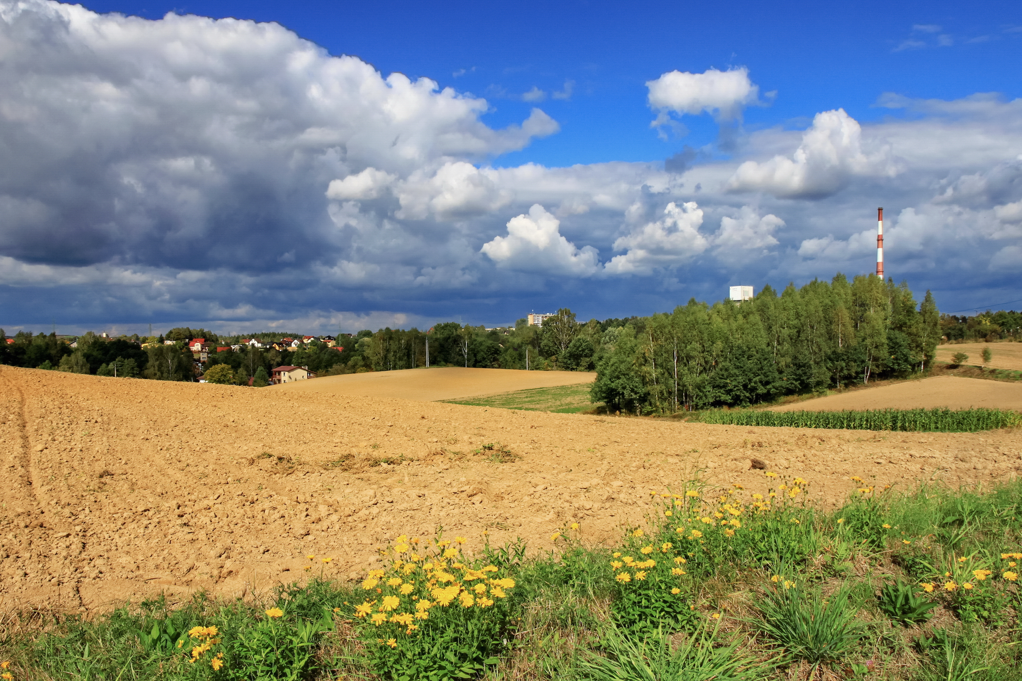 View of the field. Bukowa Street. Jastrzębie-Zdrój, Silesian Voivodeship, Poland.